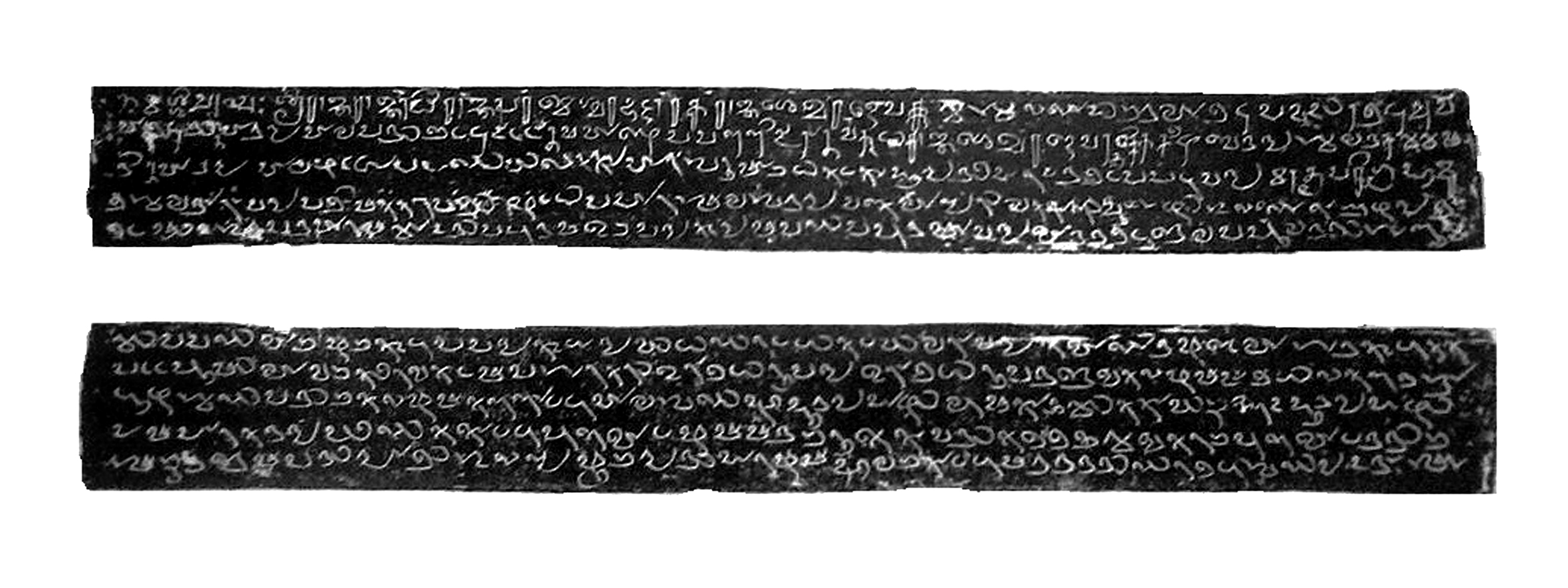 Vazhapalli copper plate (c. 830 CE): A copper plate temple committee resolution from 9th century Kerala. Attests the presence king Rama Rajasekhara (c. 800–844 CE) of Kodungallur Script: Vatteluttu (with some Grantha) Language: old form of Malayalam